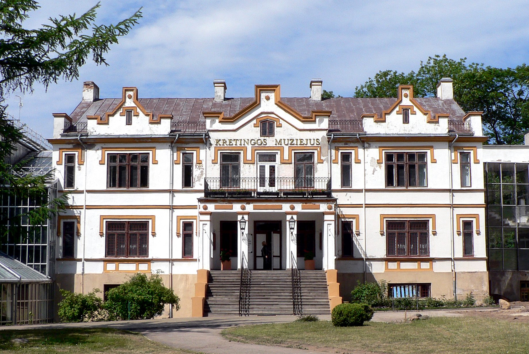 Chodkiewicz palace in Kretinga, Lithuania. Today a museum.